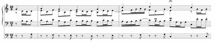 Opening bars of BWV 631 from the Orgelbüchlein